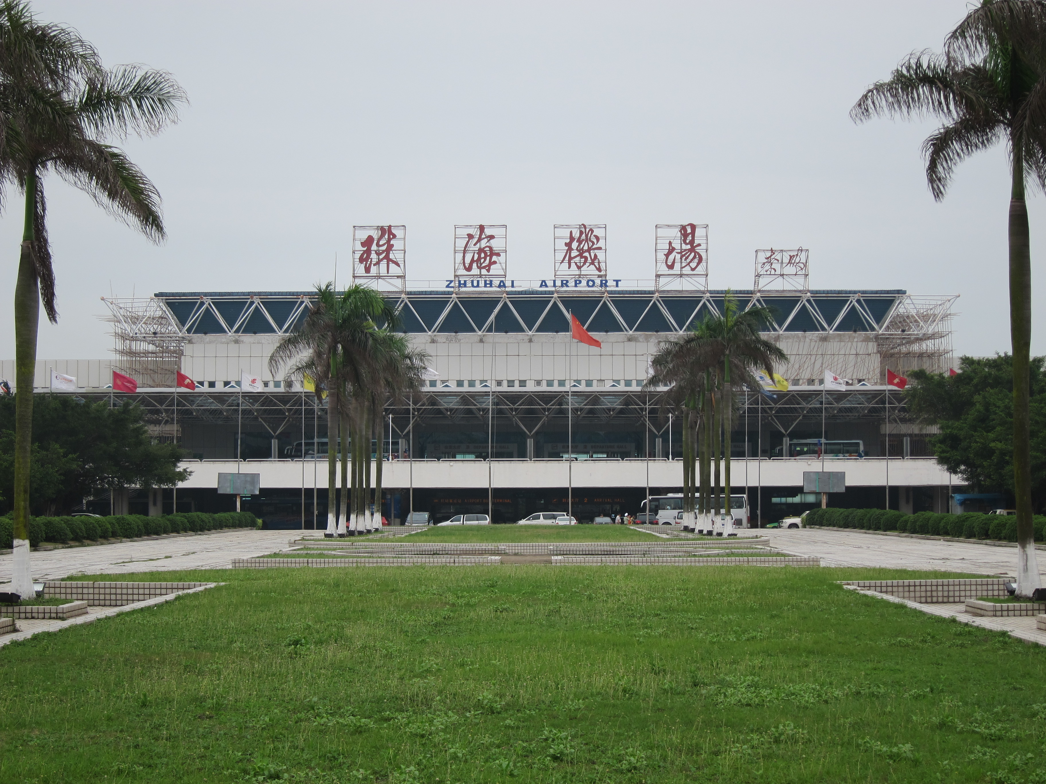 Front side of Zhuhai Sanzao Airport.